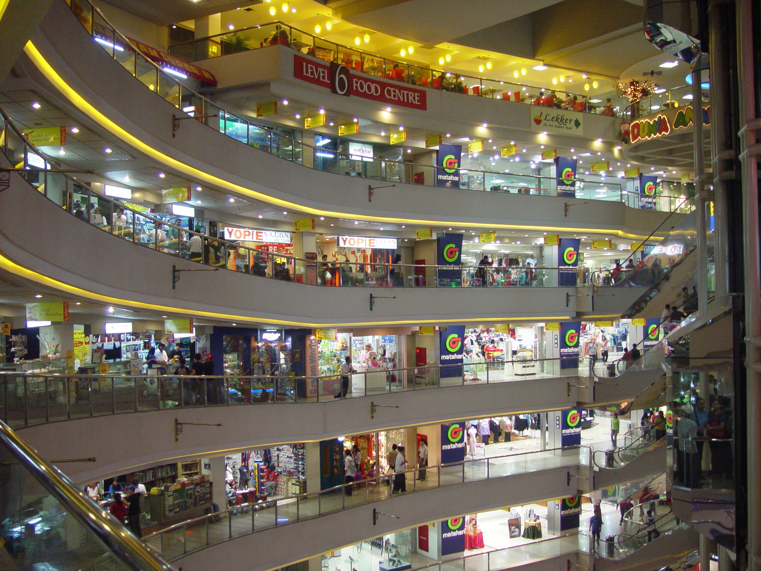 Plaza Blok M. Mall in Jakarta, Indonesia.